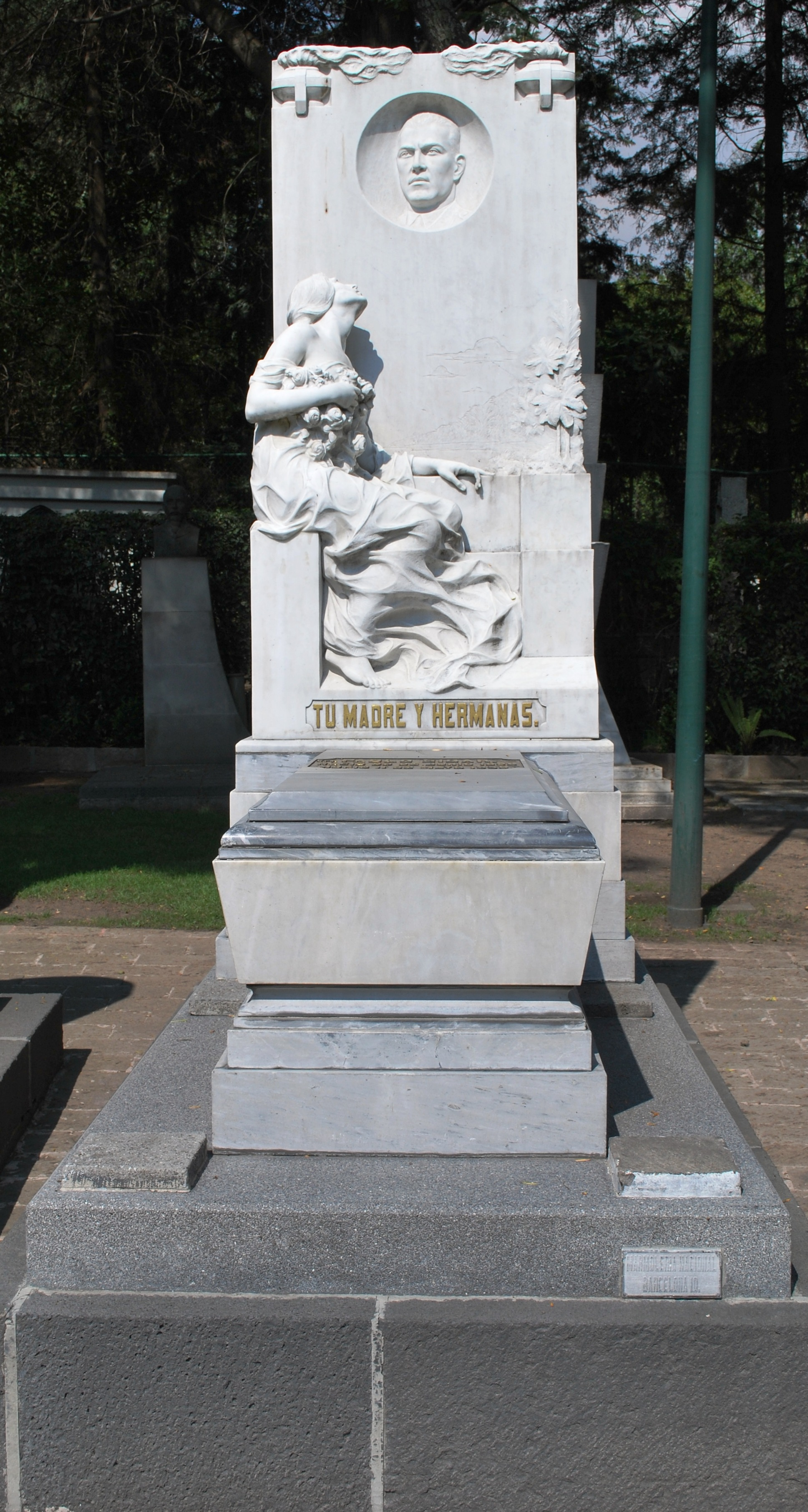 Tomb of Col. Pablo Sidar in the Panteon Civil de Dolores cemetery in Mexico City